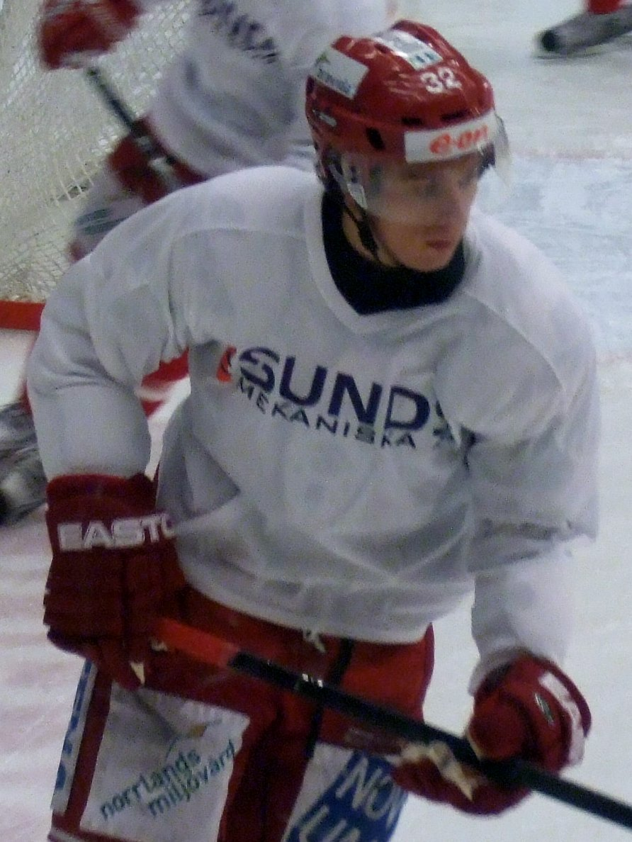 Ice hockey player Riku Hahl of Timrå IK in E.ON Arena, Timrå, Sweden